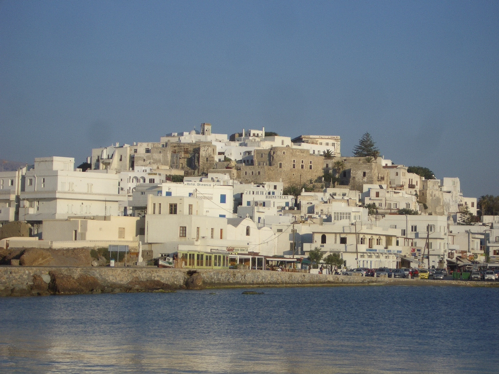 View of Chora